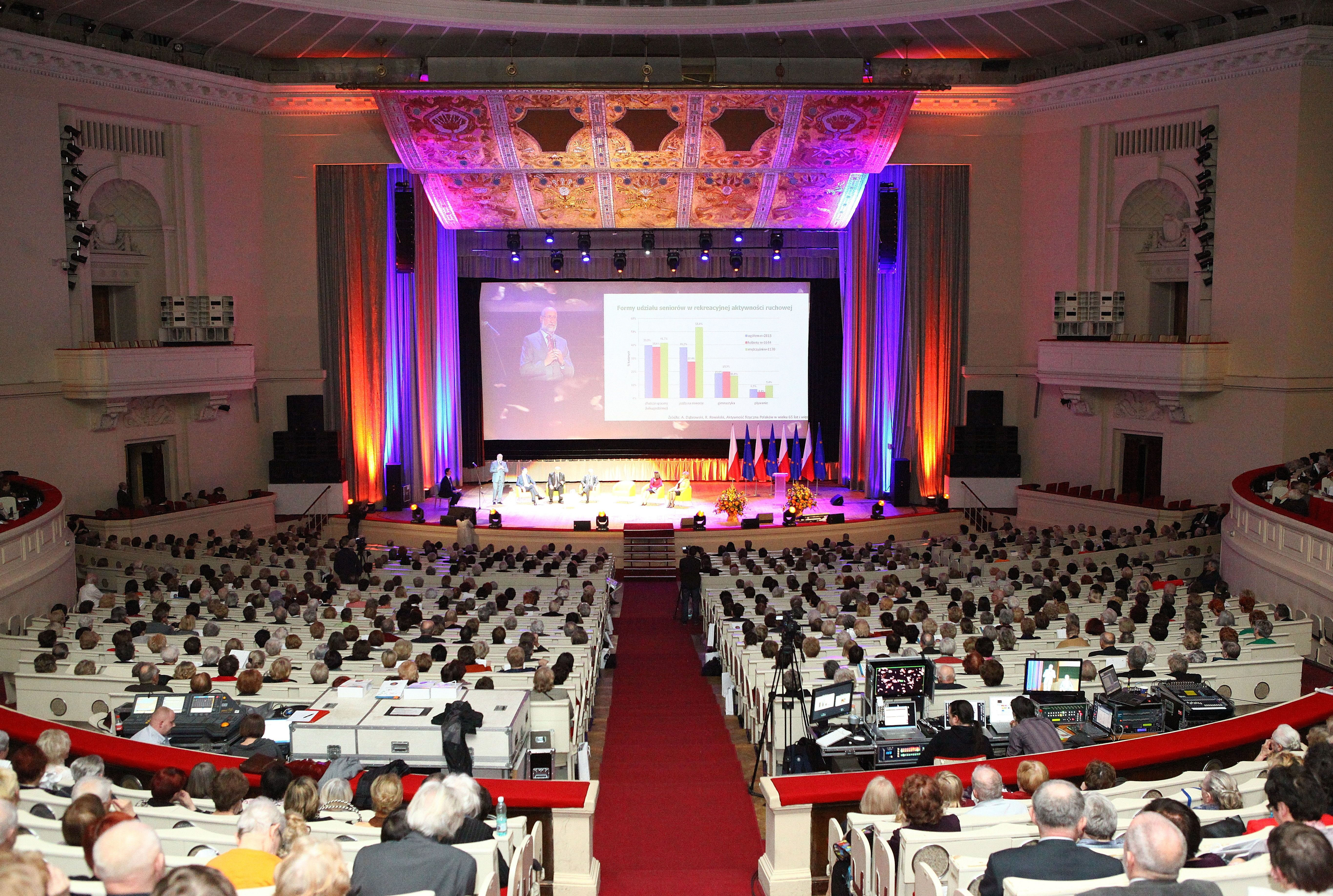 1st Congress of the Universities of the Third Age in Warsaw